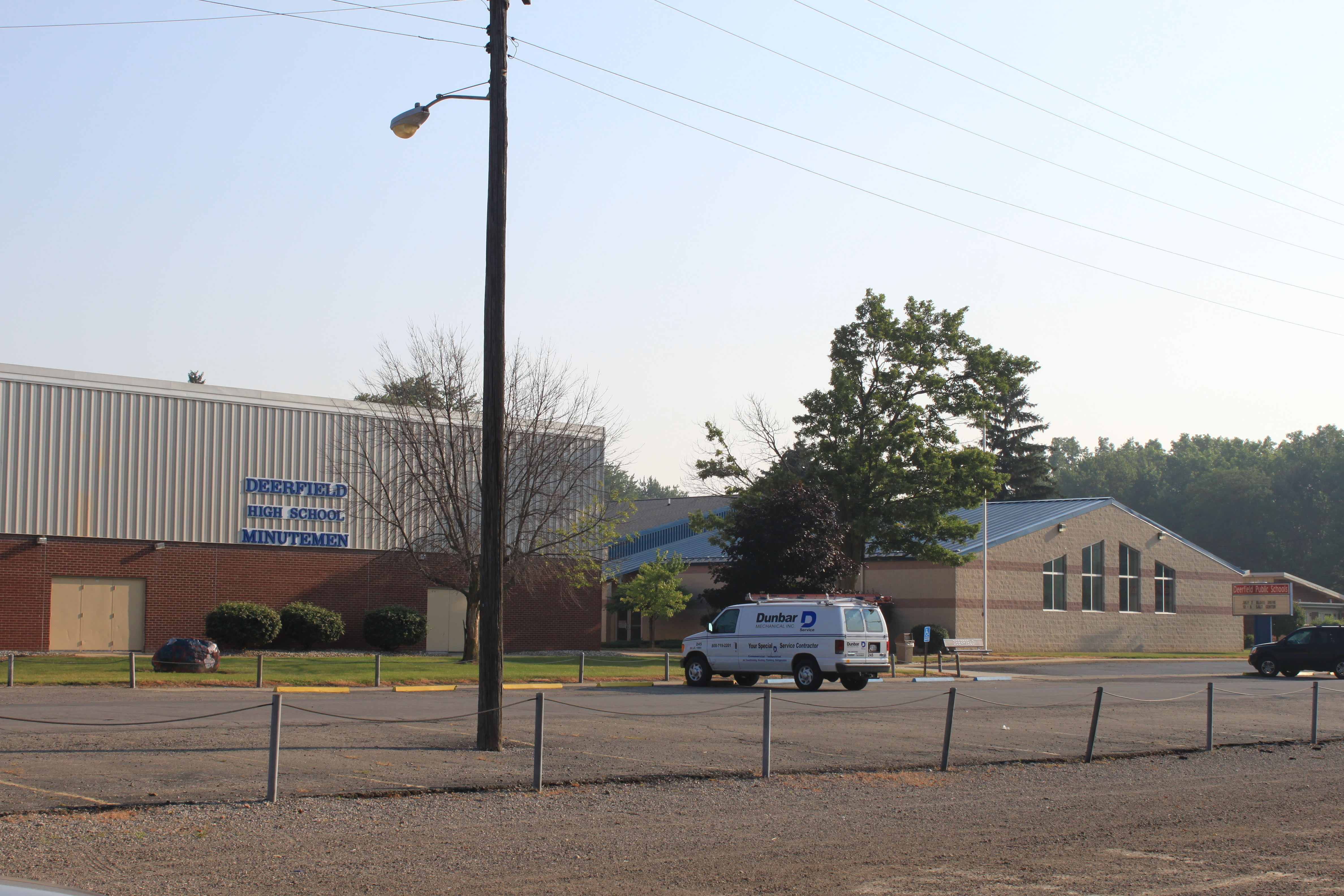 Deerfield Village Michigan, Deerfield Schools, 252 Deerfield Highway